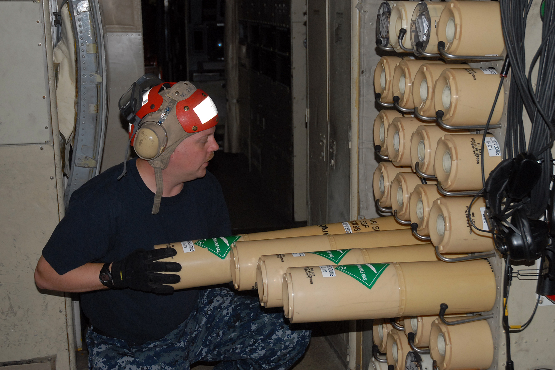 OKINAWA, Japan (Oct. 5, 2011) Aviation Ordnanceman 2nd Class Matthew Quanstrom, assigned to Patrol Squadron (VP) 40 verifies the preset functions of AN/SSQ-53F sonobuoys. VP-40 is forward-deployed to Kadena Air Base in Okinawa, Japan. (U.S. Navy photo by Mass Communication Specialist 2nd Class Julian R. Moorefield/Released)